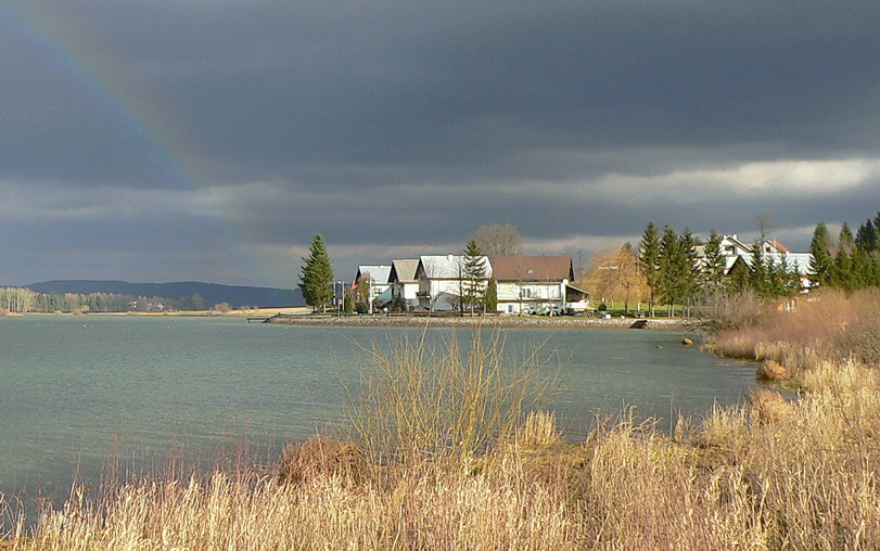 Rainbow in Ribarići, village near Ogulin, Croatia